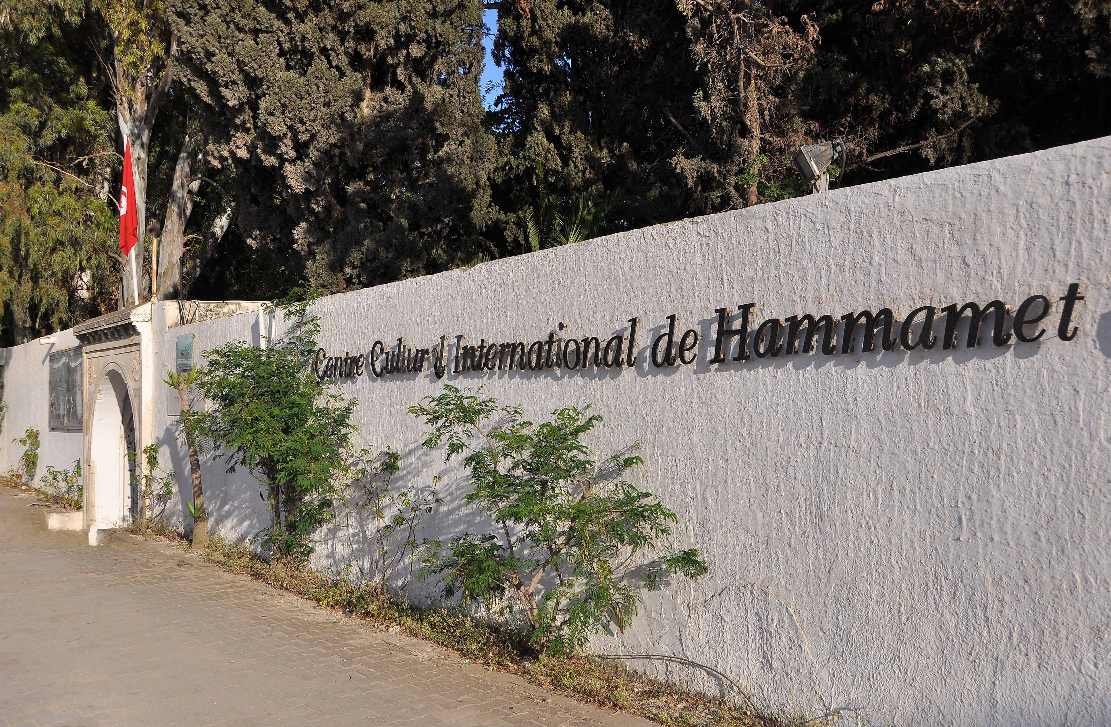 Hammamet (Tunisia): Arts Centre, entrance